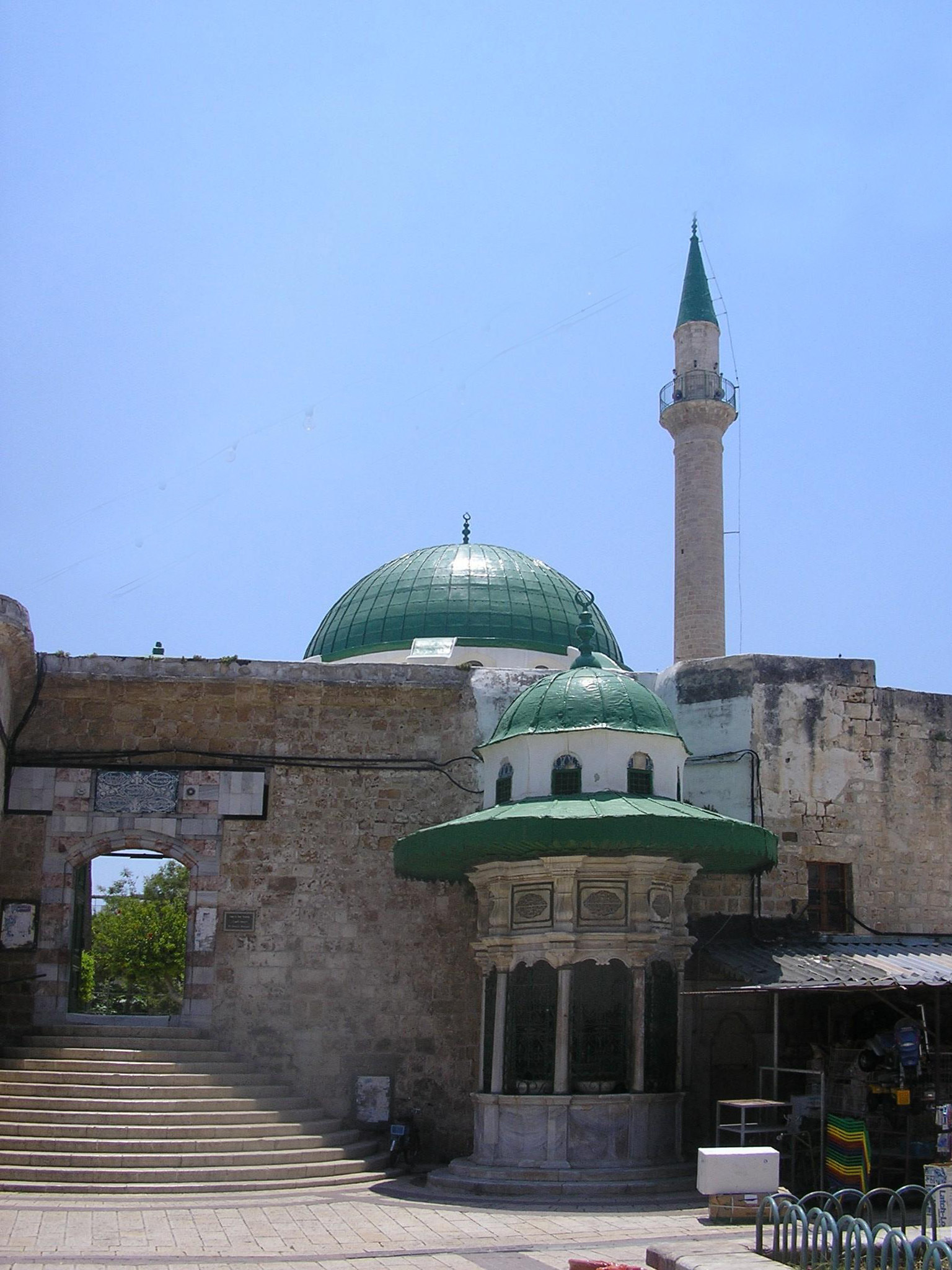 The entrance to Al-Jazaar mosque in Acco (Acre), Israel.